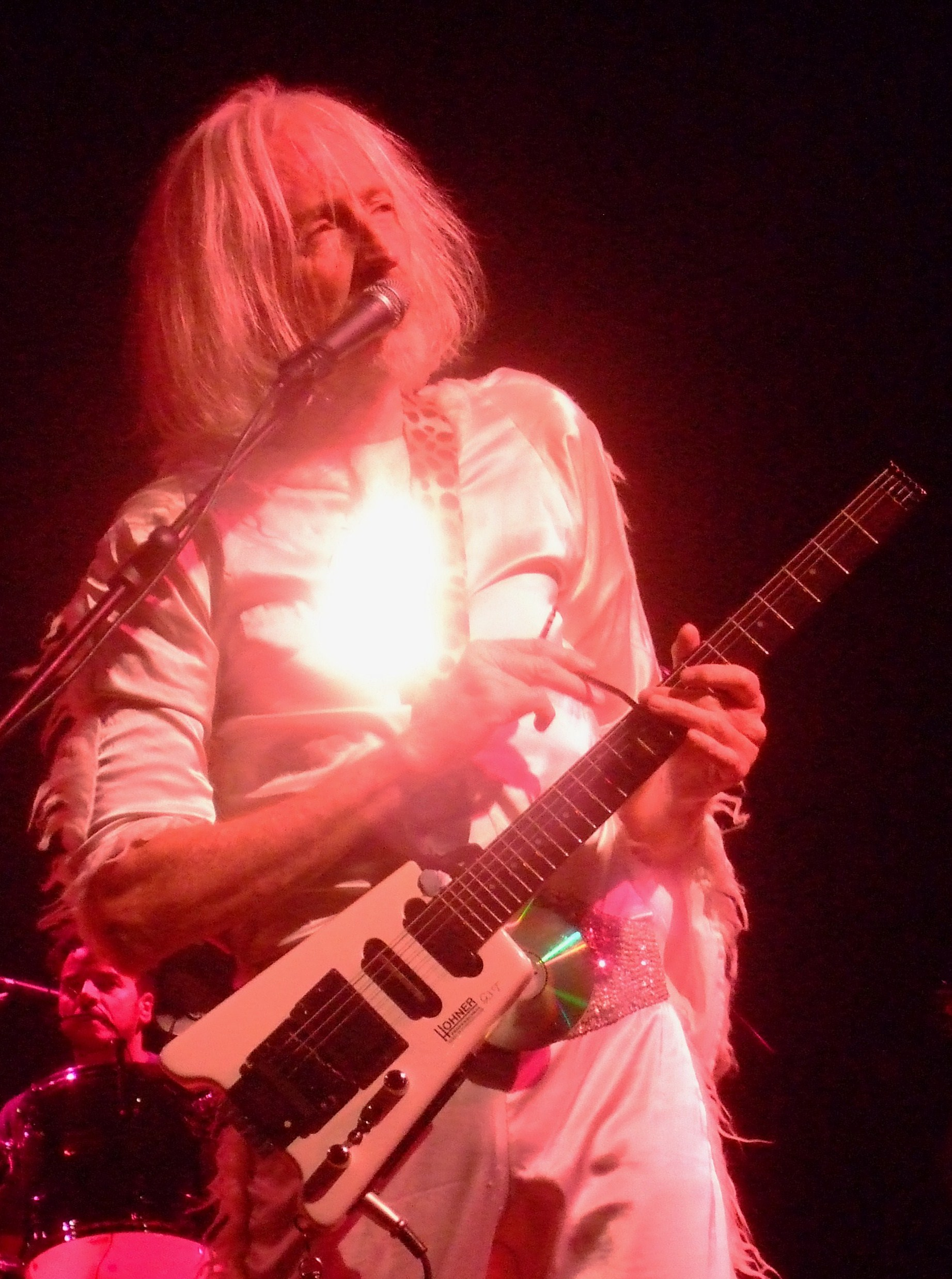 Daevid Allen playing with the Gong at Zafferana (Sicily) 07-31-2009